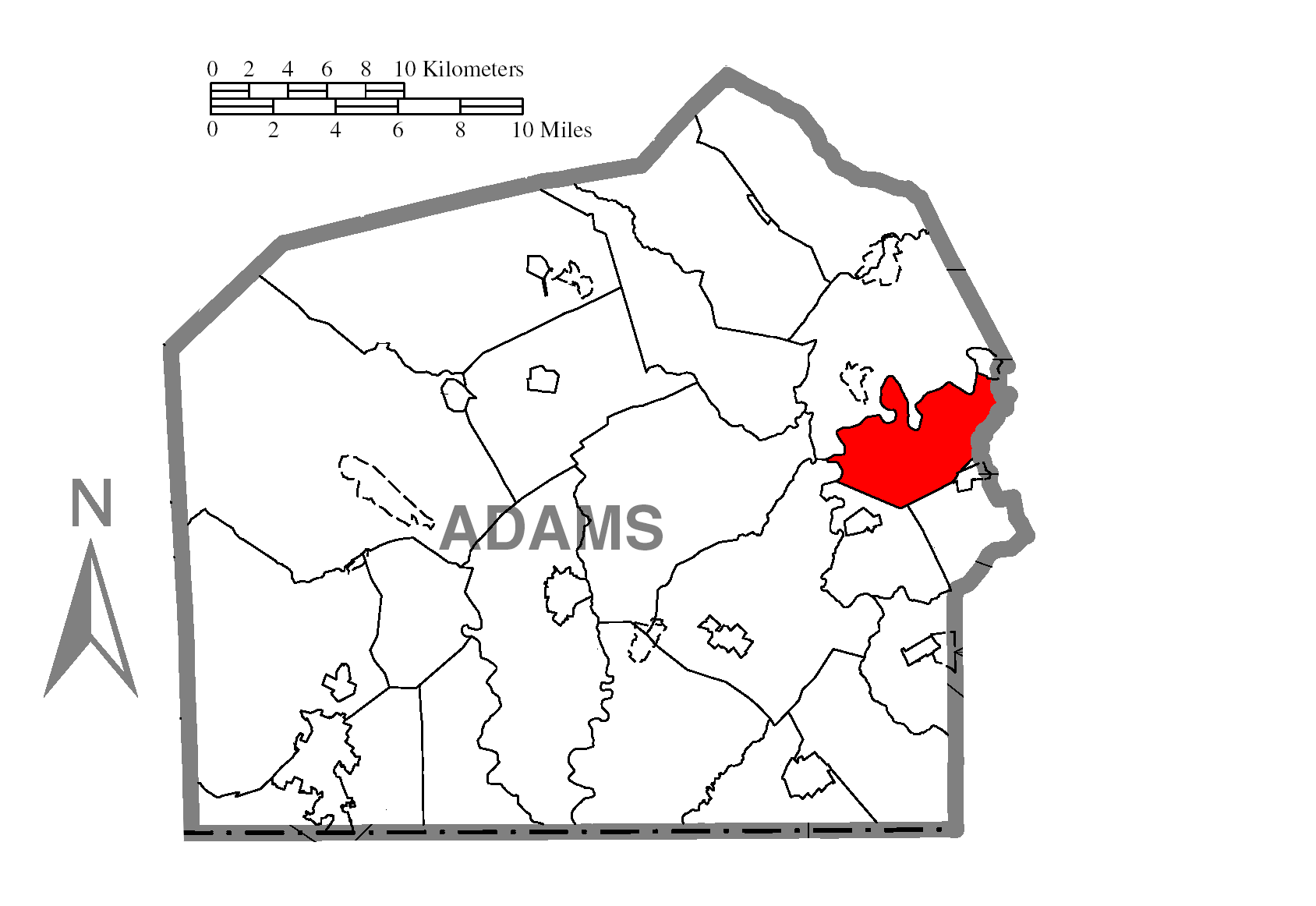 A map of Adams County showing Hamilton Township, Pennsylvania (alternate) highlighted on the map.